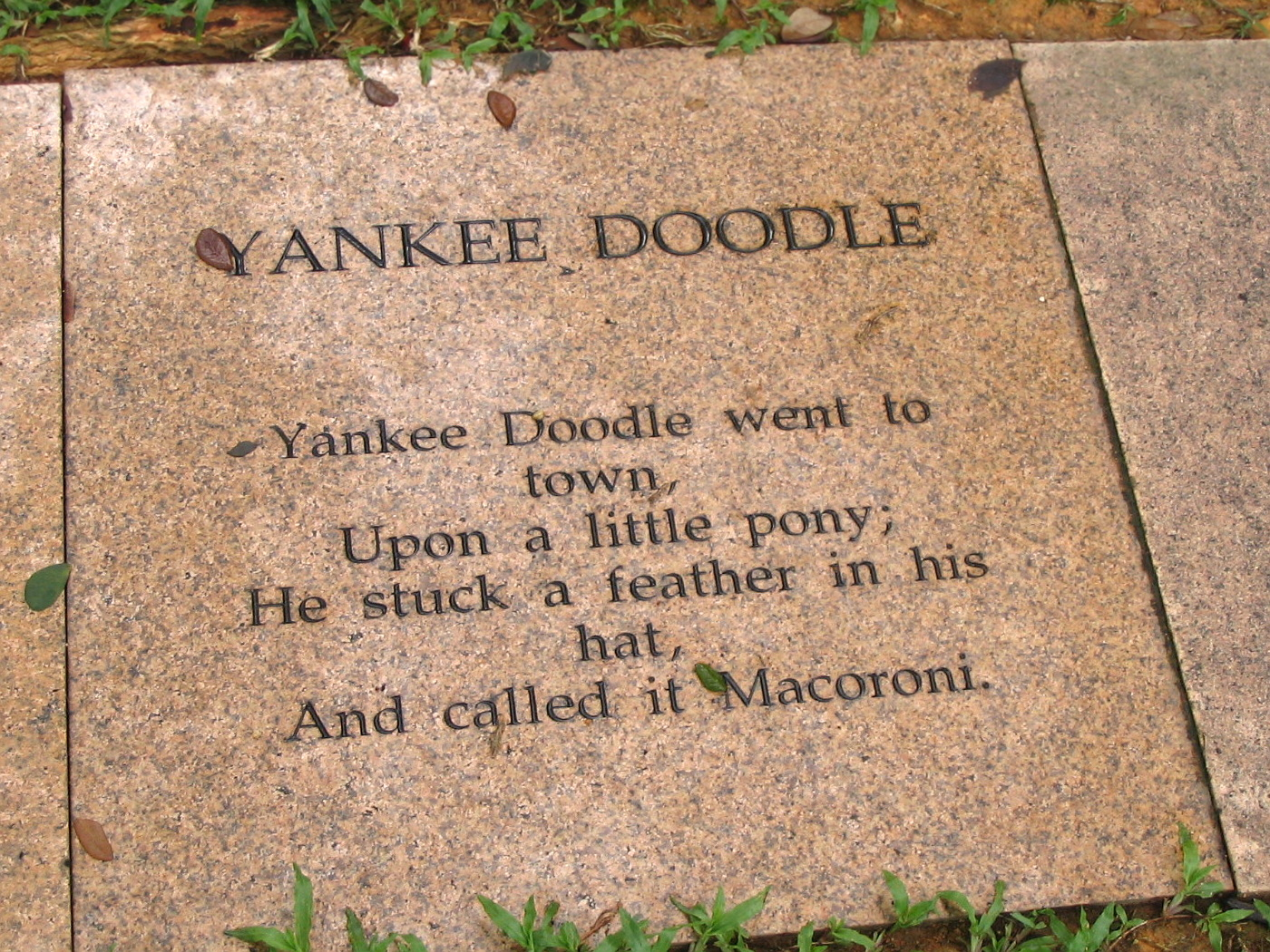 The first verse of Yankee Doodle, a well-known US song. The words are from a well-known song that first appeared in the 1700s. Any copyright for the words would have expired.